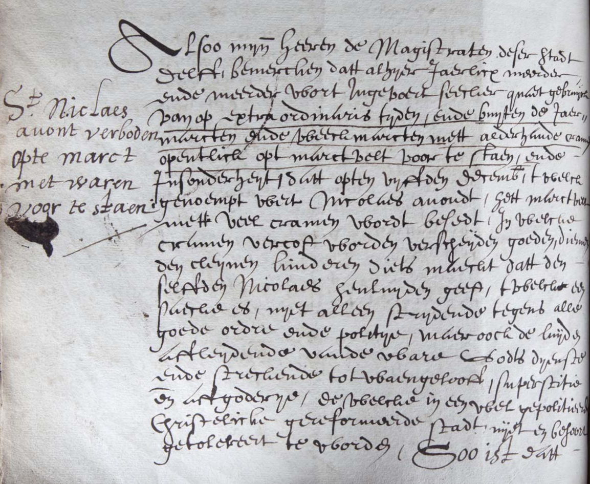 Prohibition of the market on Saint Nicolas Eve (Sinterklaasavond, December 5) by the magistrate of Delft city, condemnation of the Feast of Saint Nicolas in general.